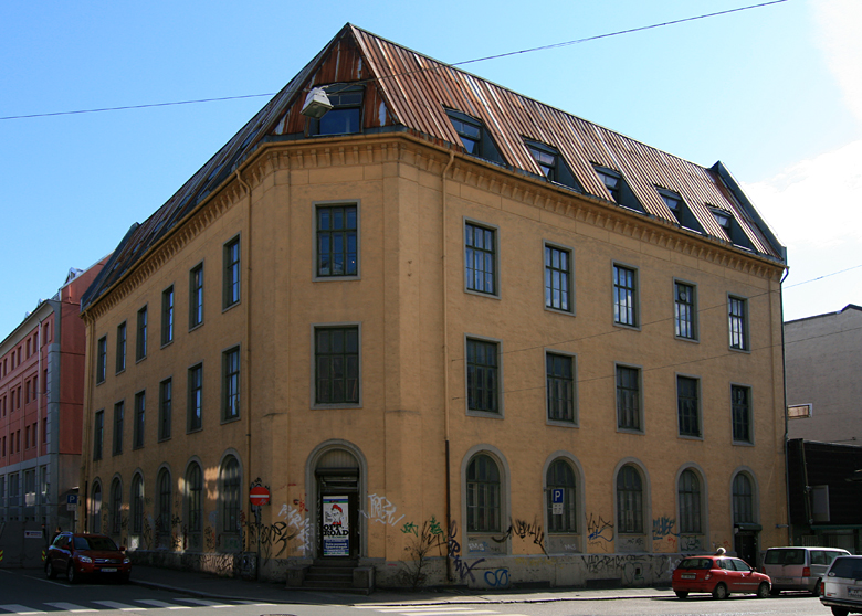 Håndverkergården, Mariboes gate 11, Oslo, Norway. Built 1872. Architect: Oluf Onsum. First «Maribogadens Latin- og Realskole» (Qvams skole). «Heltbergs studentfabrikk» was also located here during its last years.